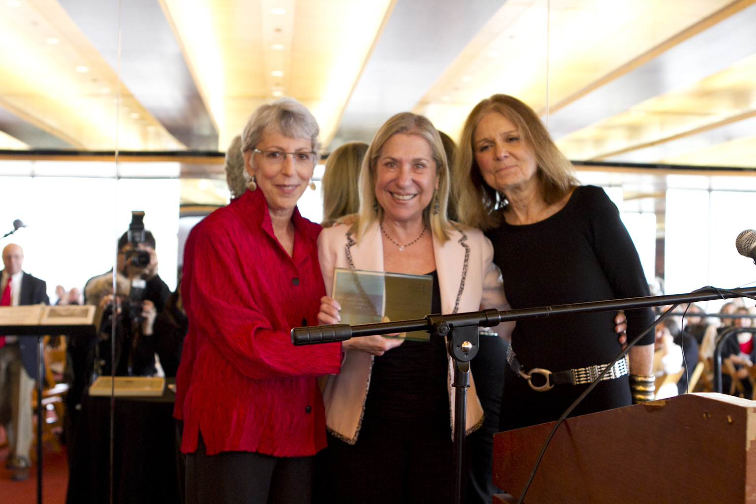 On March 18, 2012, Letty Cottin Pogrebin was among the honorees receiving awards at the Annual Luncheon, "Making Trouble/Making History" of the Jewish Women's Archive. Here she is pictured with Gail Reimer (founding director of JWA) to our left, and Gloria Steinem (co-founder Ms. Magazine), who made the award presentation to our right. The complete set of photos from the event are available at